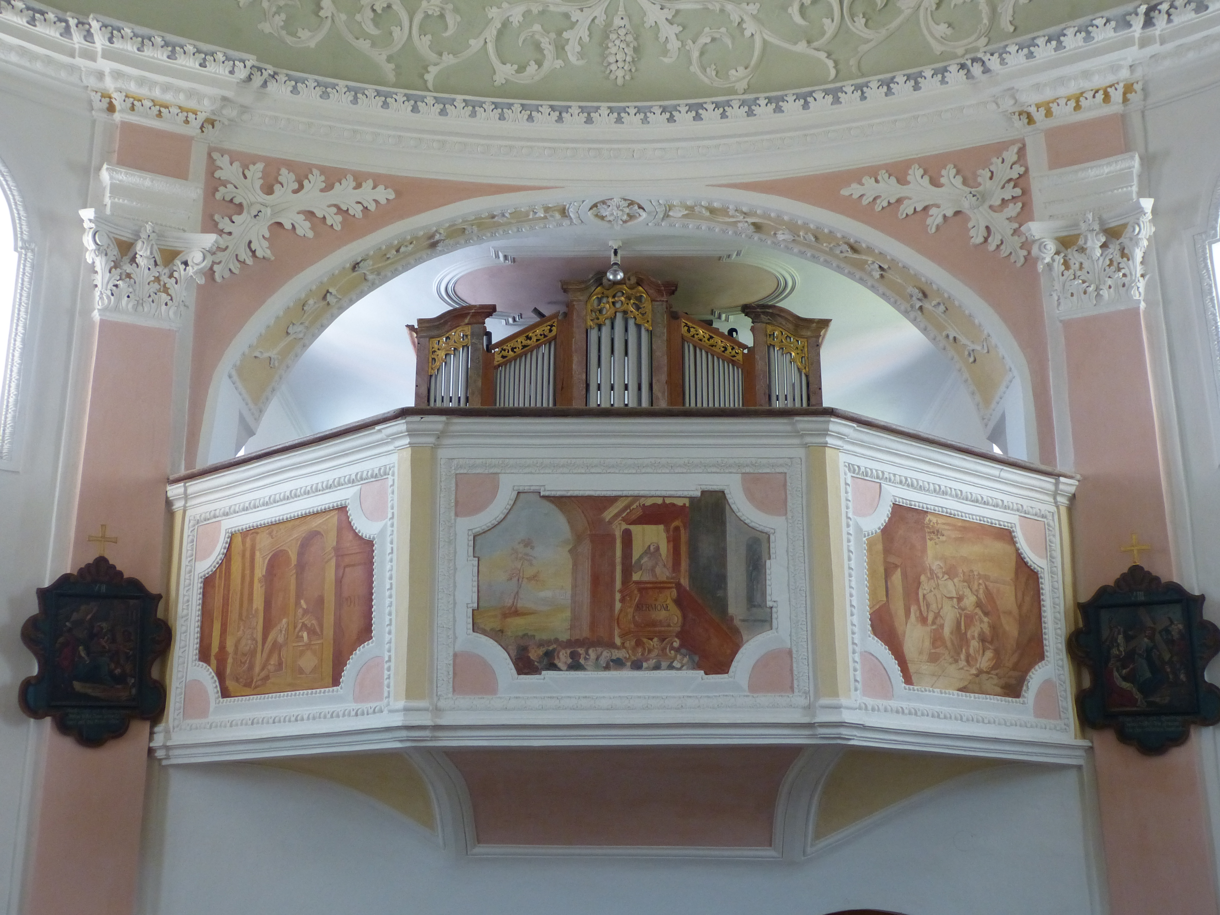 St. Antonius of Padua in Berg near Markt Wald, Landkreis Unterallgäu, Bavaria